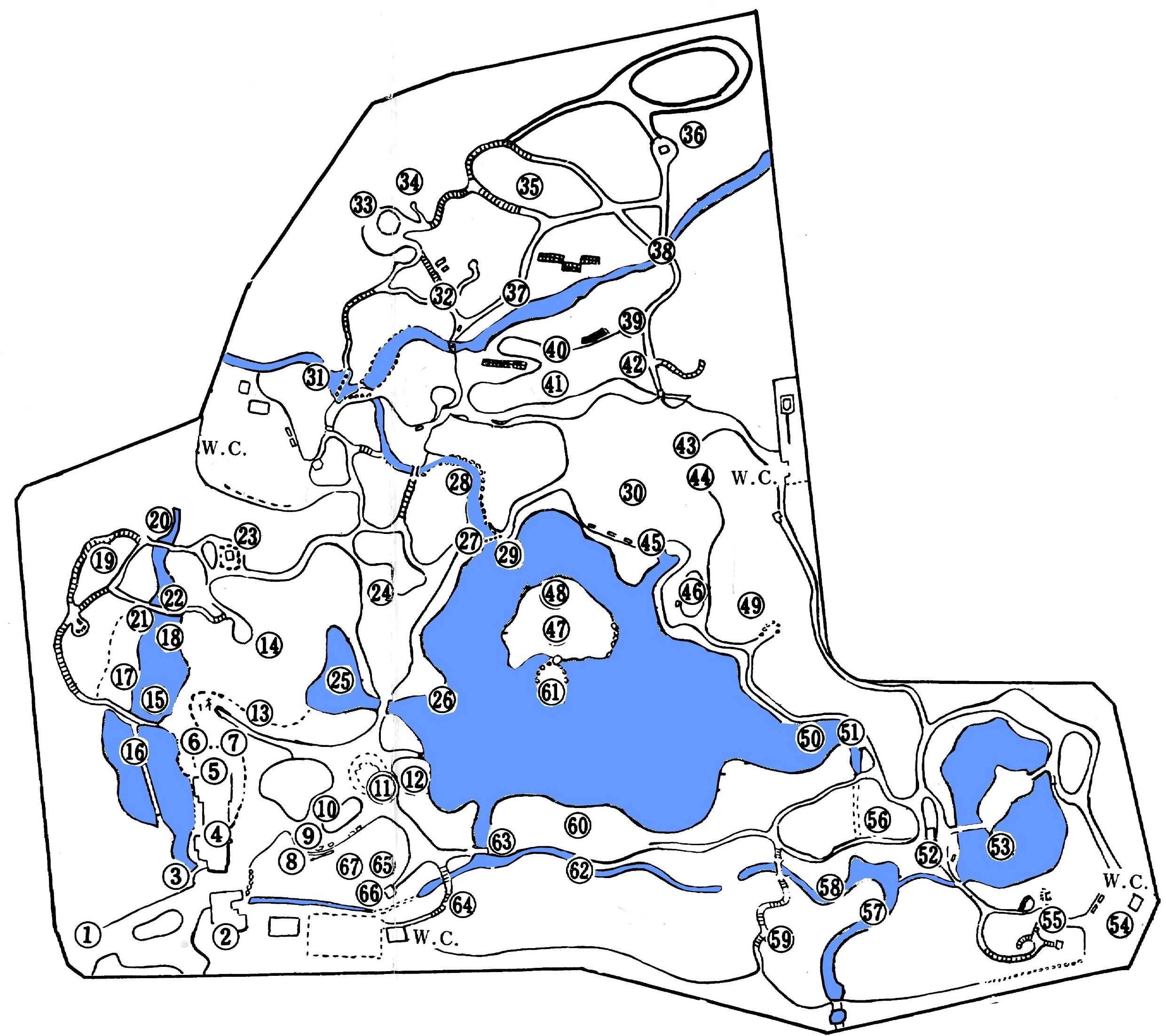 Layout of Korakuen Tokyo